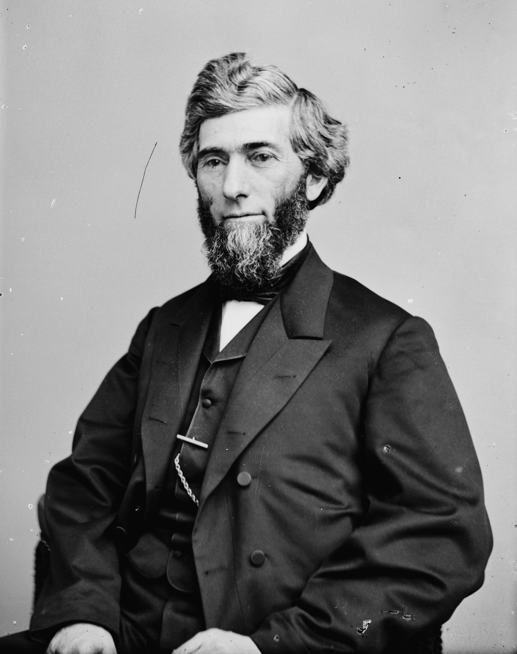 Reuben Fenton. Library of Congress description: "Fenton, Hon. Reuben Eaton of N.Y."